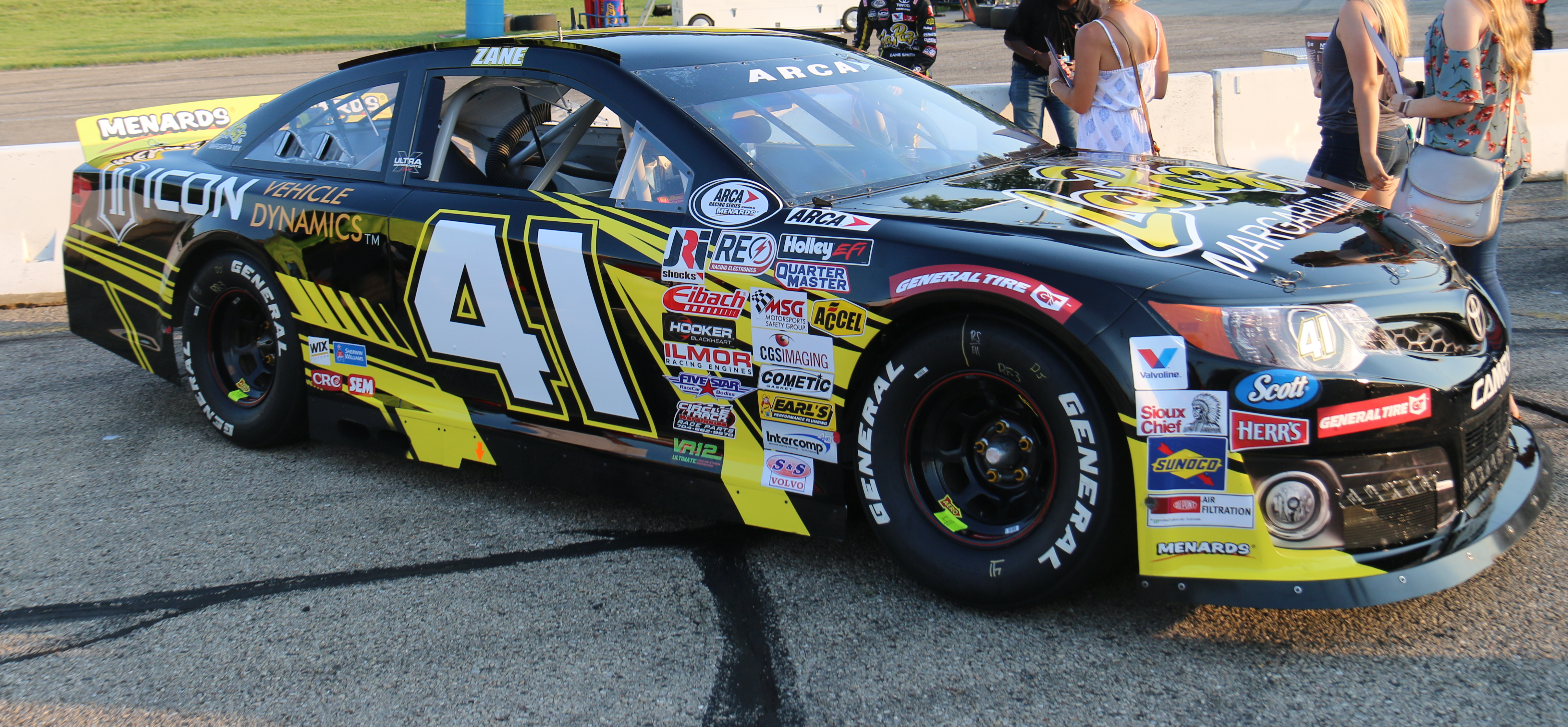 The #41 car of Zane Smith on display at the 2018 ARCA race at Madison International Speedway.